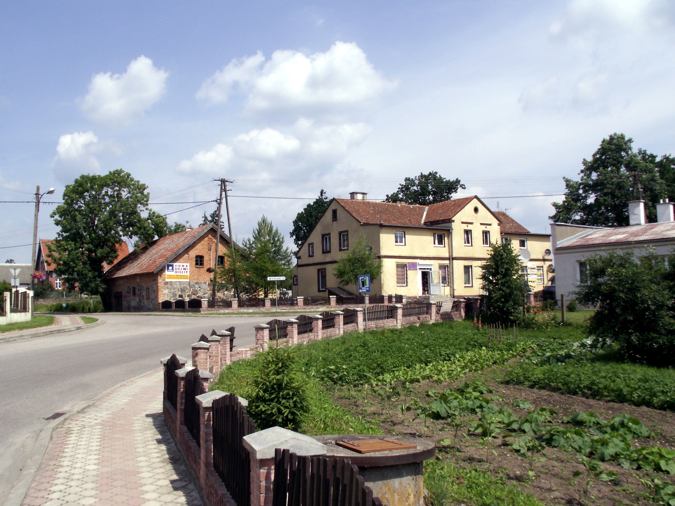 Dubeninki